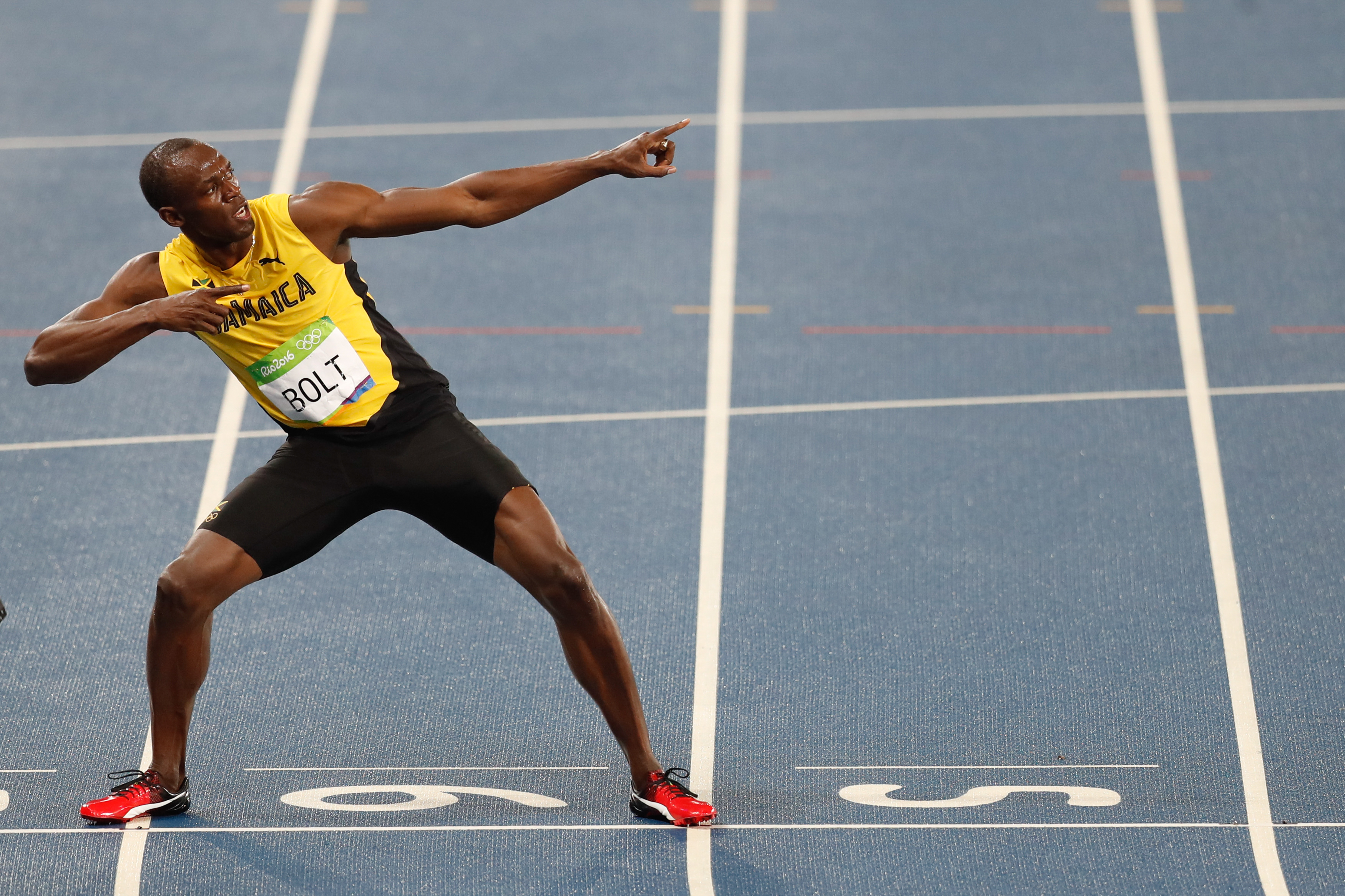 Rio de Janeiro - O Jamaicano Usain Bolt vence prova dos 200m rasos do atletismo e leva medalha de ouro nos Jogos Rio 2016, no Estádio Olímpico (Fernando Frazão/Agência Brasil)